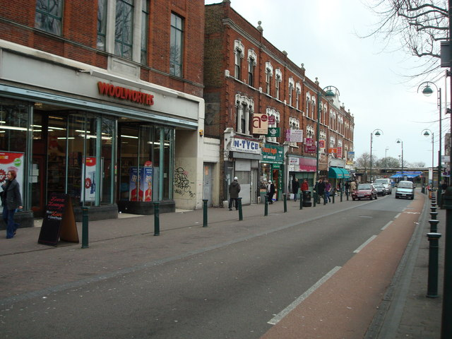 Church Lane, Leytonstone, London E11